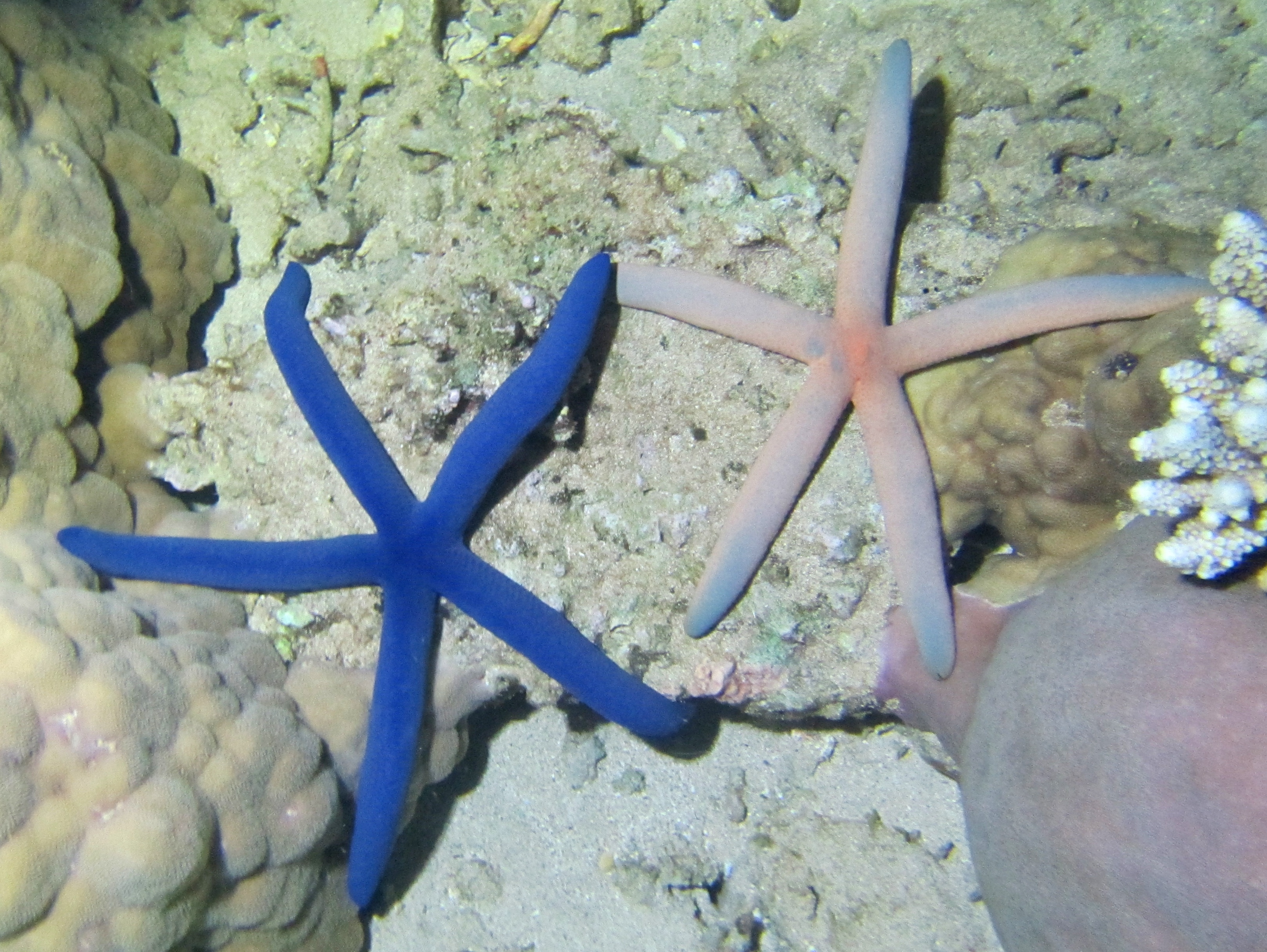 Two color morphs of Linckia laevigata in Mayotte.